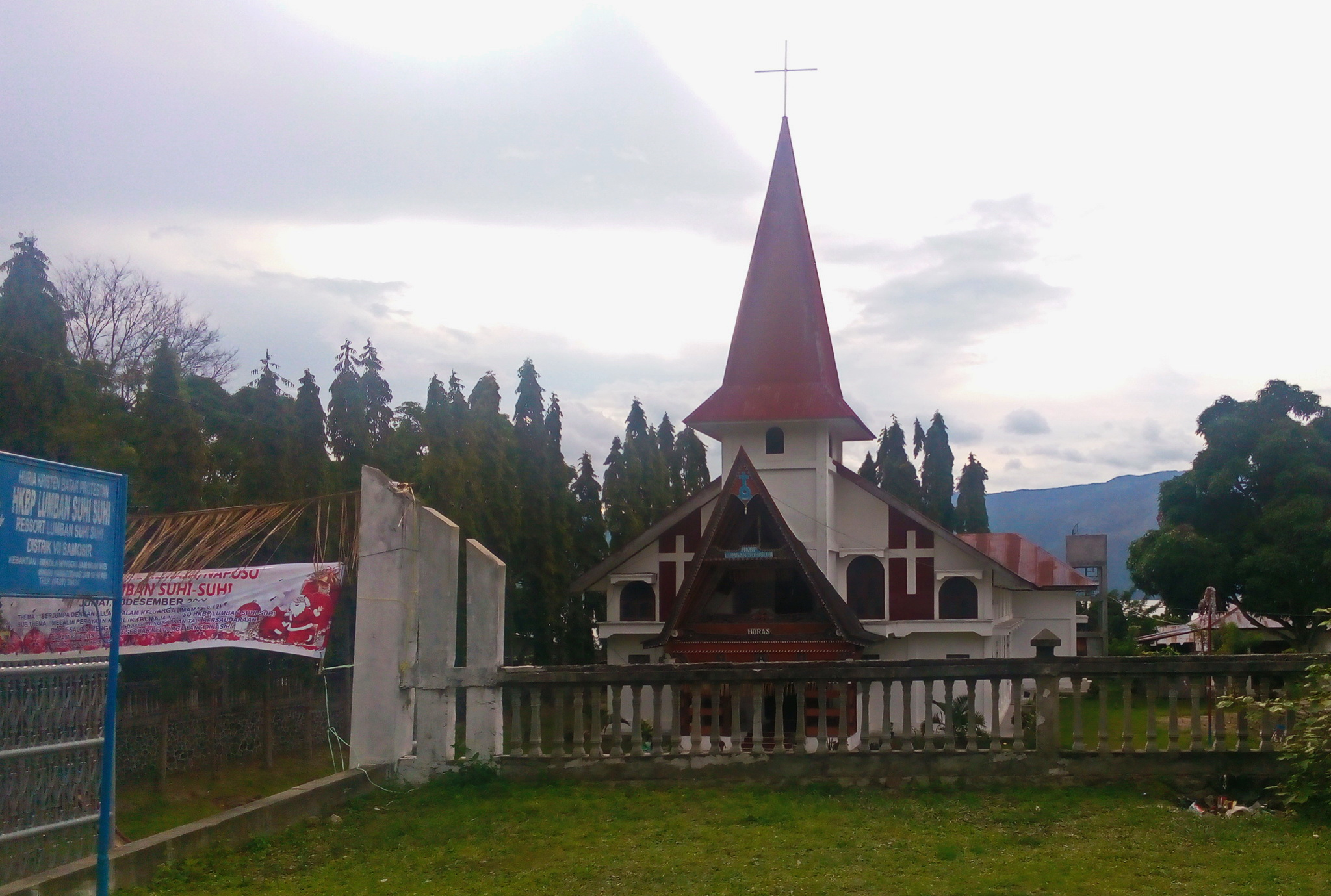 HKBP Lumban Suhisuhi, Church in Lbn. Suhisuhi, Pangururan, Samosir